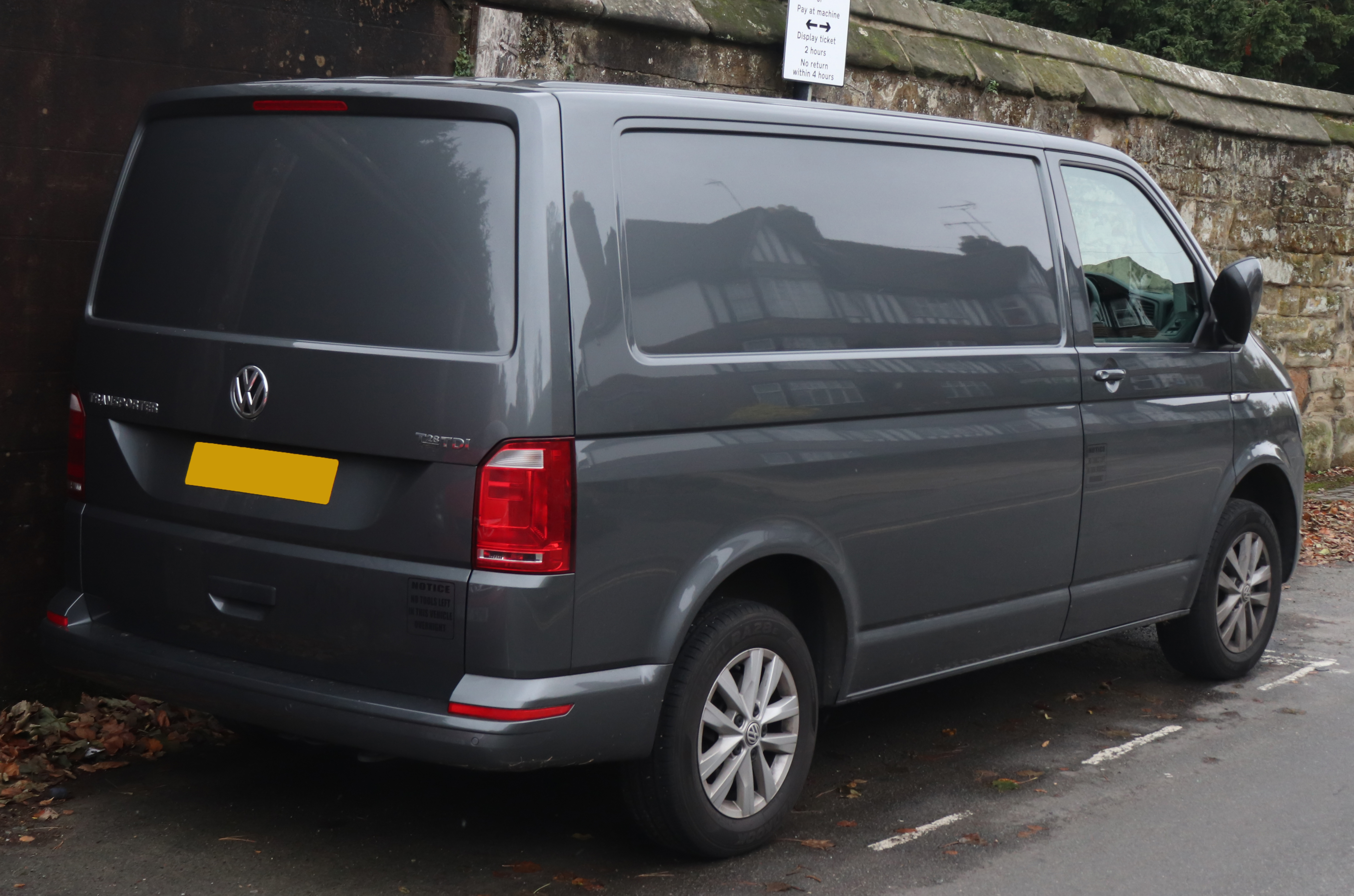 2017 Volkswagen Transporter T28 Highline TDi 2.0 Rear Taken in Warwick